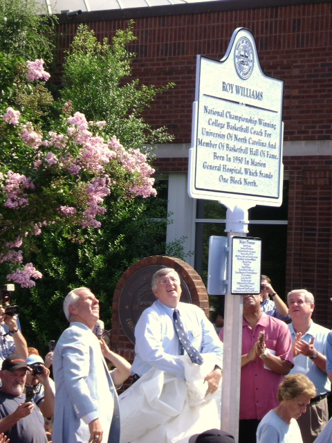 Roy Williams (basketball coach) birthplace marker in Marion, NC